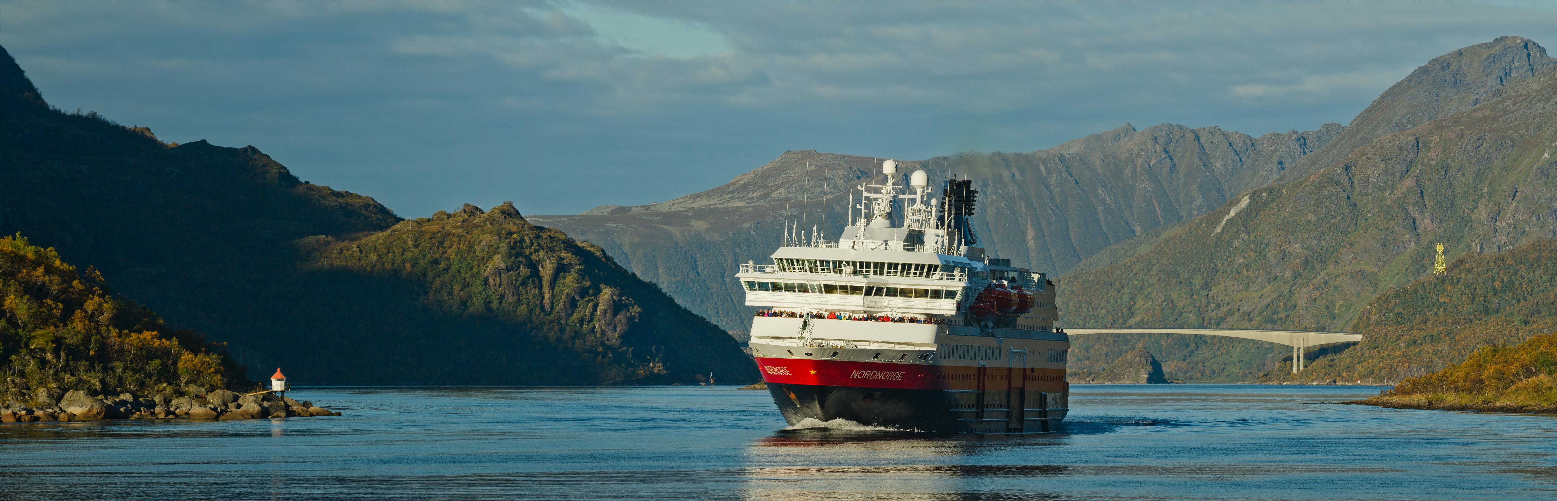 Hurtigruten ship MS Nordnorge in Raftsundet, Hadsel municipality, Nordland, Norway in 2015 September. Raftsundet is a strait between the islands of Hinnøya and Austvågøya at the foot of Lofoten archipelago.